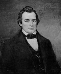 John Winston Jones, Speaker of the House of Representatives